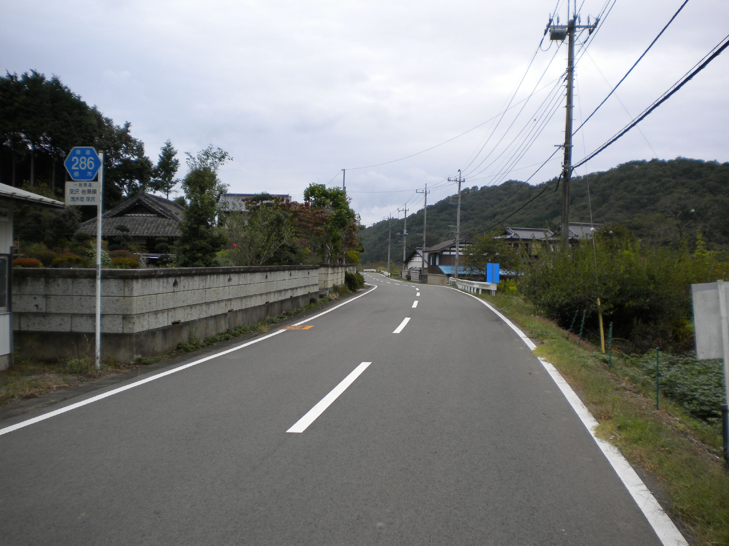 The Tochigi Prefectural Road Route 286 in Fukasawa, Motegi Town